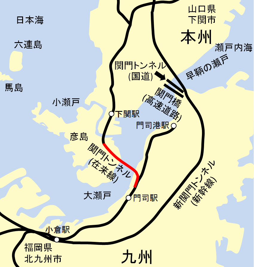 Railway route map around Kammon straight.